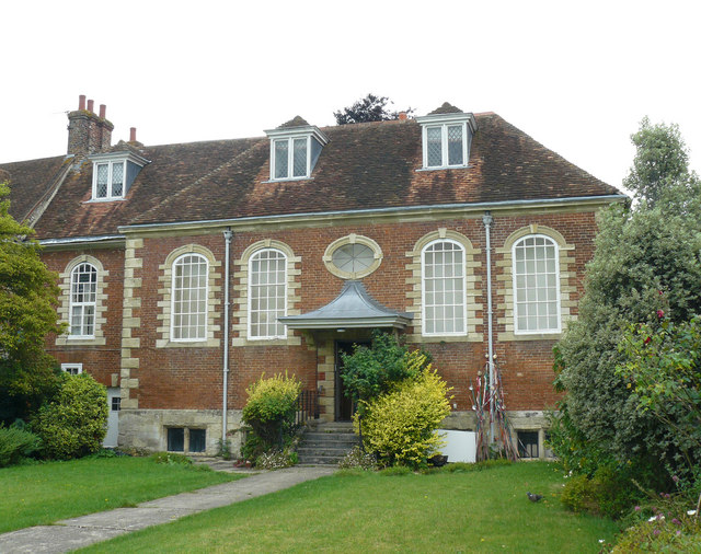 Salisbury - Wren Hall This educational establishment is located in the cathedral close.